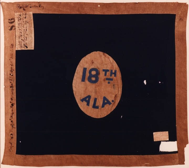 18th Alabama Infantry flag (Hardee pattern), Alabama Department of Archives and History